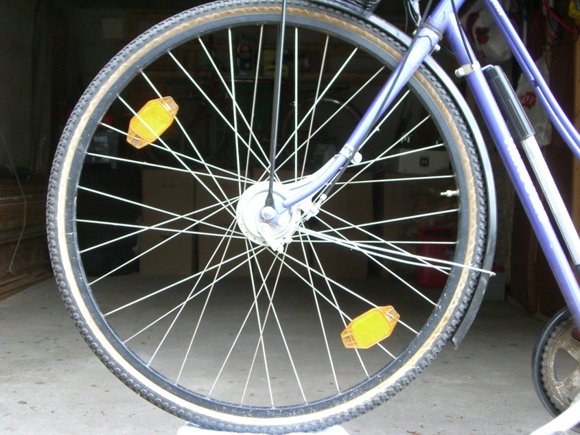 Front wheel of a typical bicycle with 36 spokes